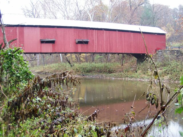 Bakers Camp Covered Bridge, Putnam County, Indiana